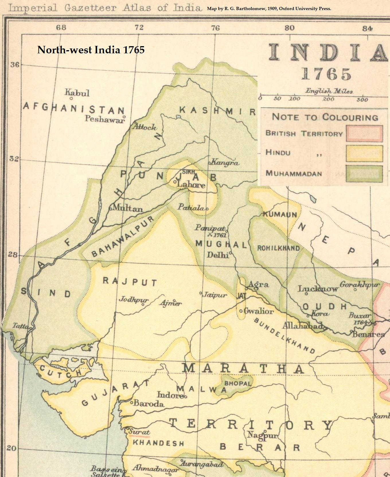 Map from, "India 1765" from Imperial Gazetteer of India, 1909, Oxford University Press. Scanned from personal copy, cropped and annotated by me (Fowler&fowler«Talk» 21:43, 18 March 2007 (UTC)), showing the region and environs of present-day Pakistan.